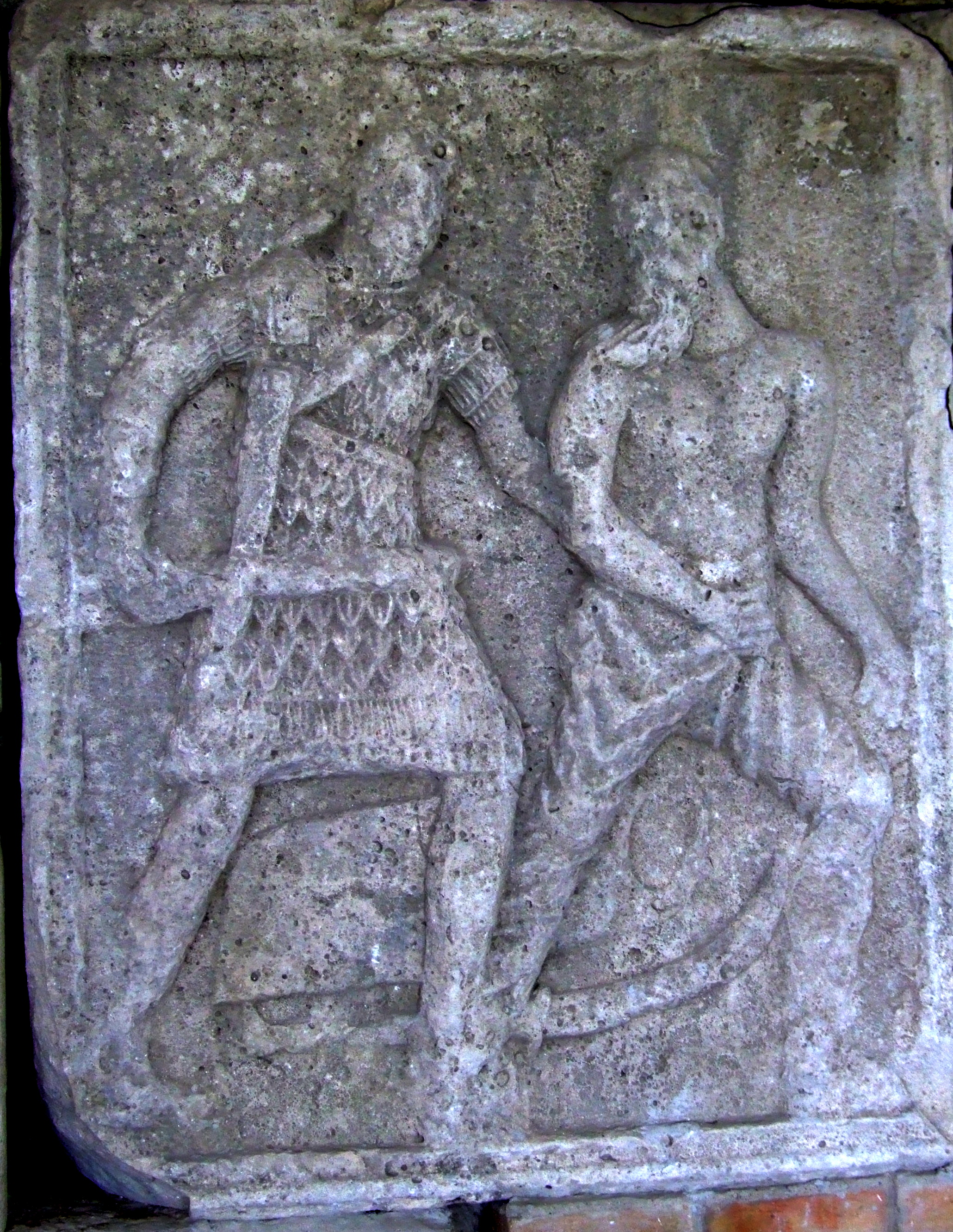 Tropeum Traiani Metope